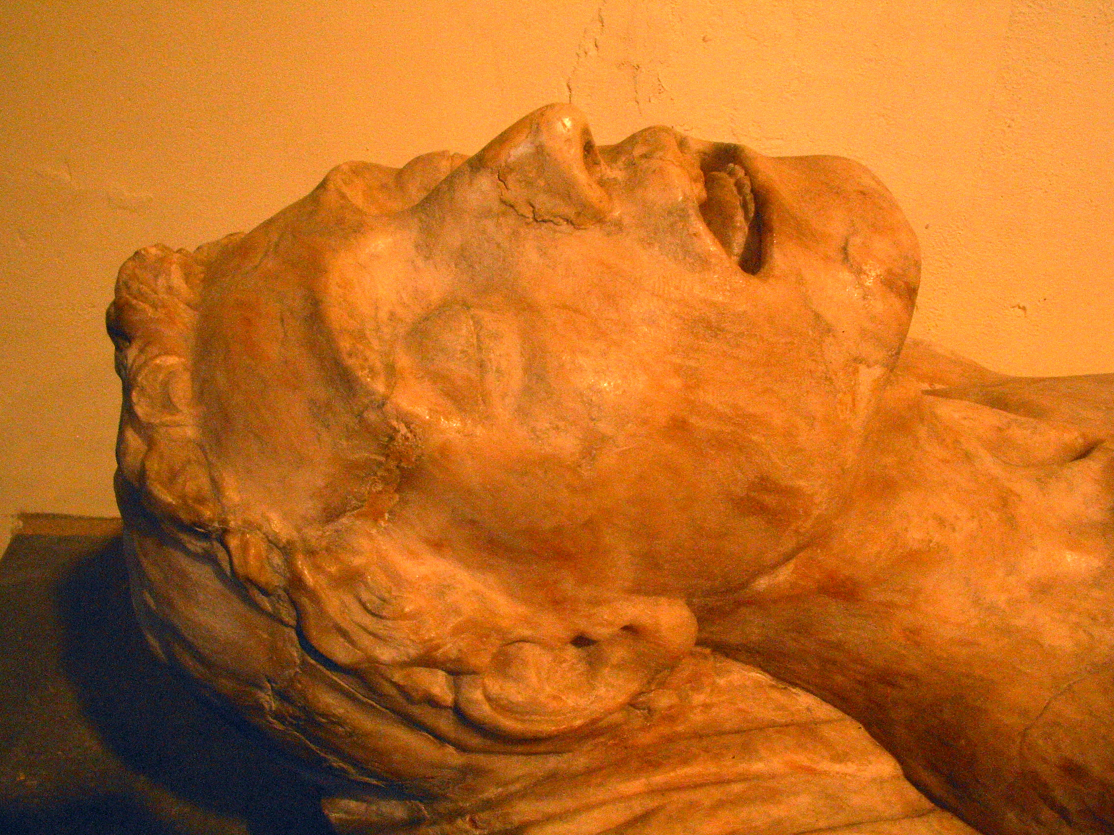 Head of the mannerist carved alabaster lying by Jacques du Broeucq (XVIth century) depicting a man dying - Mortuary chapel of the lords of Boussu in Boussu (Belgium).